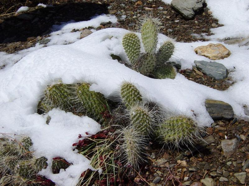 Cactus in snow above Charcoal KilnsP Note: for "Charcoal Kilns", see Places of interest in the Death Valley area#Charcoal Kilns.